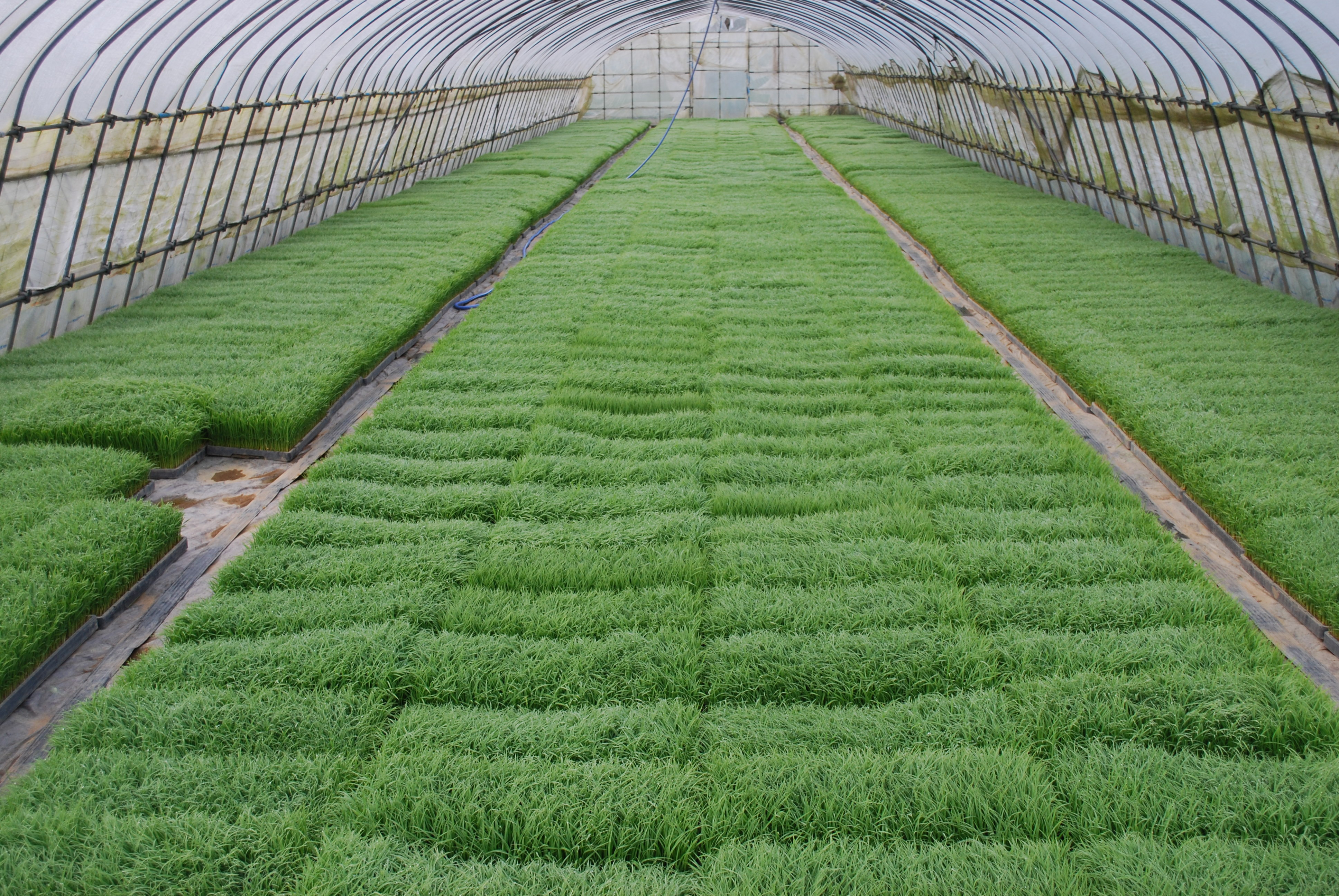 Seedbed of the rice,Katori-city,Japan. The rice which I brought up with a box for rice-transplanting machines.